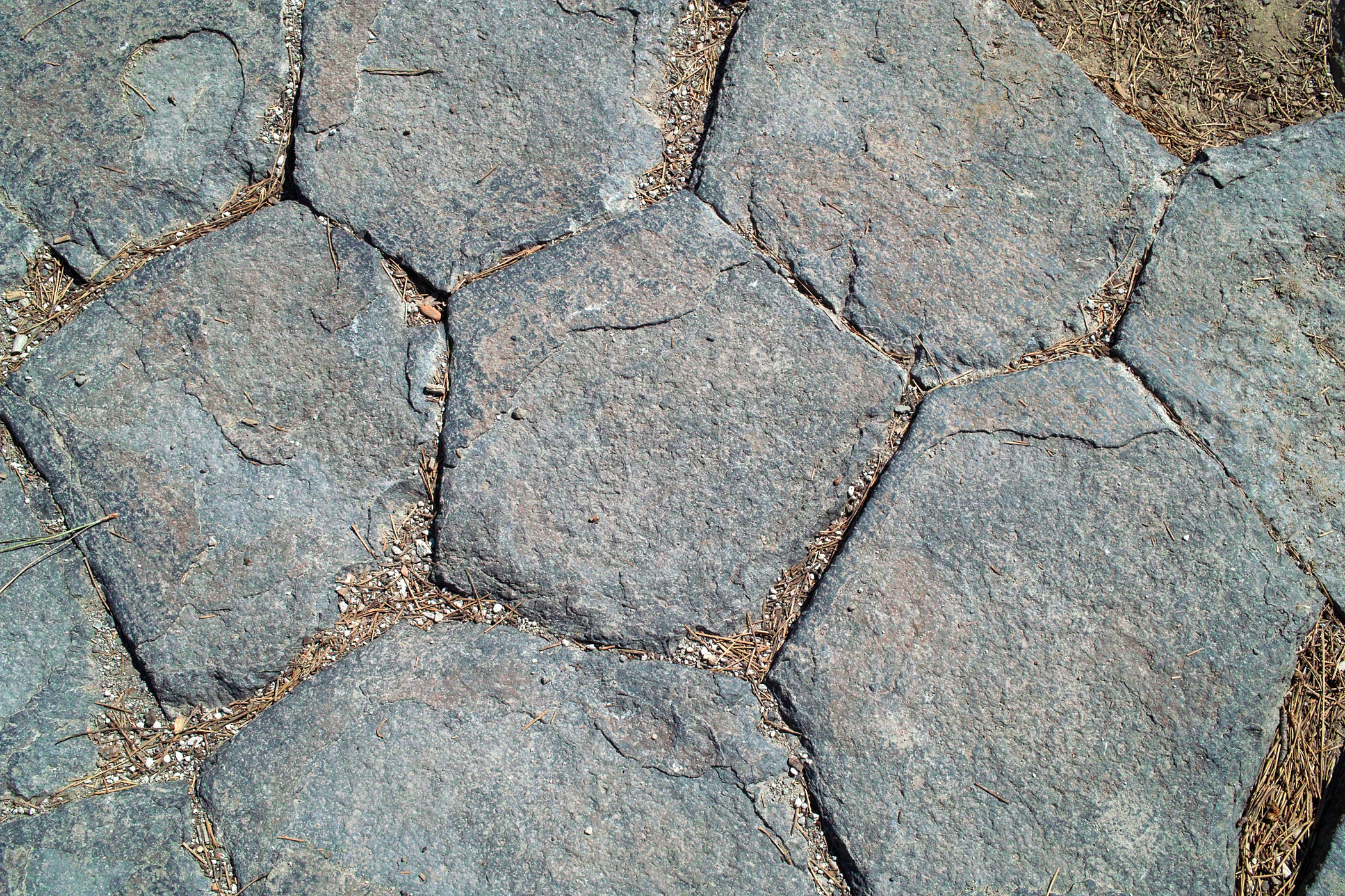 Tops of basalt columns at Devils Postpile National Monument. Most of the columns are hexagonal, but other shapes are found, such as this pentagon.